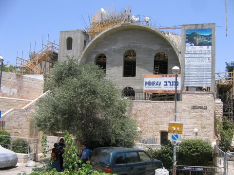 The Hurva Synagogue in Jerusalem under construction, July 2007